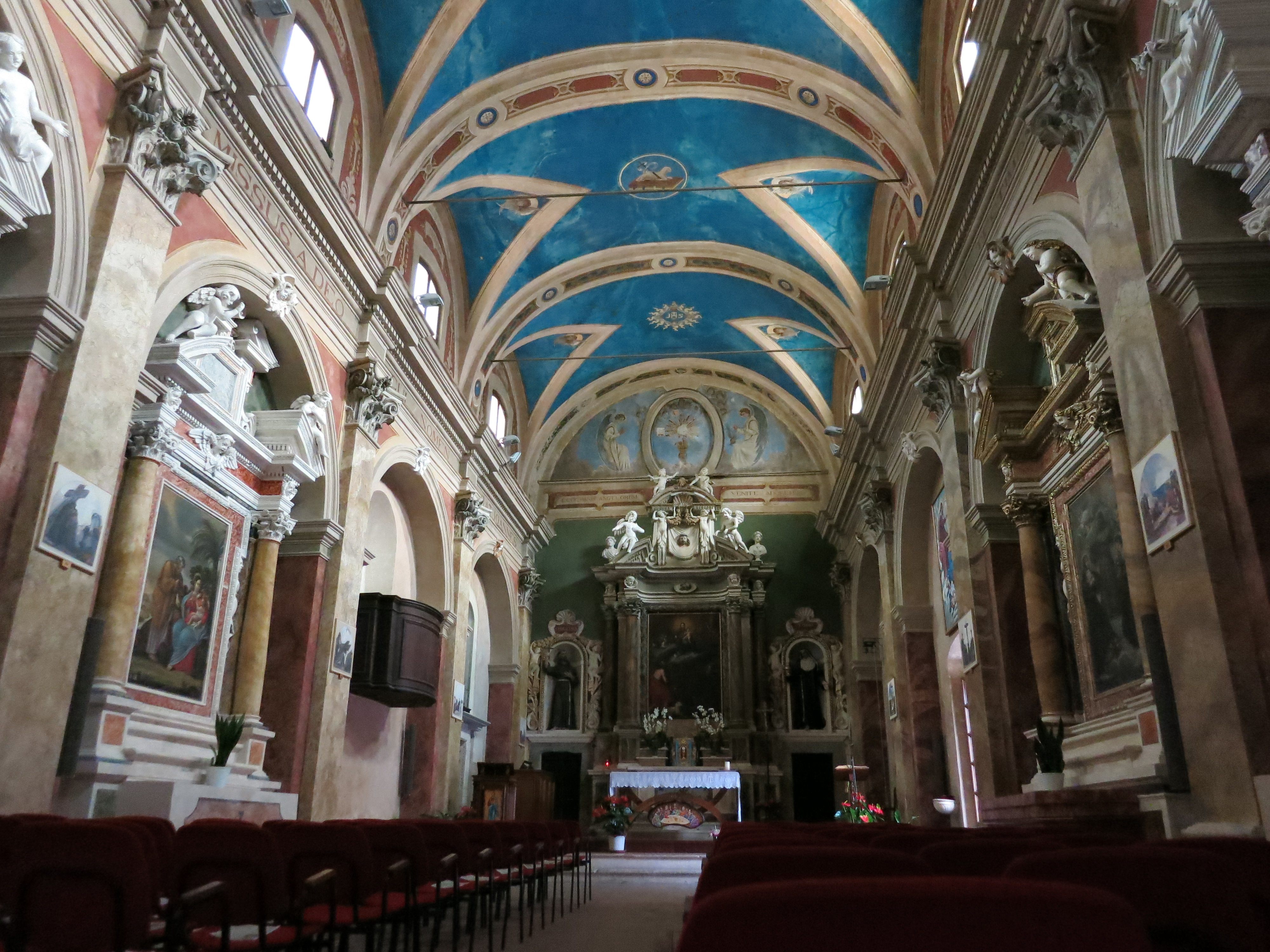 Saint Claire church - Antrodoco (province of Rieti, central Italy)